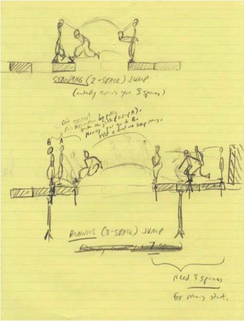 Sketches of the storyboard of Prince of Persia by Jordan Mechner.